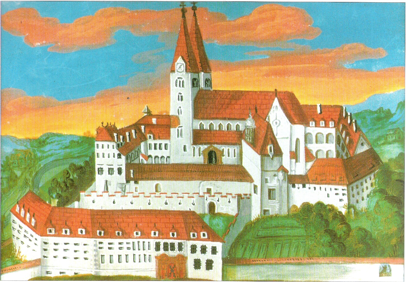 St. Paul's Abbey in the Lavanttal in Carinthia/Austria, approx. 1653